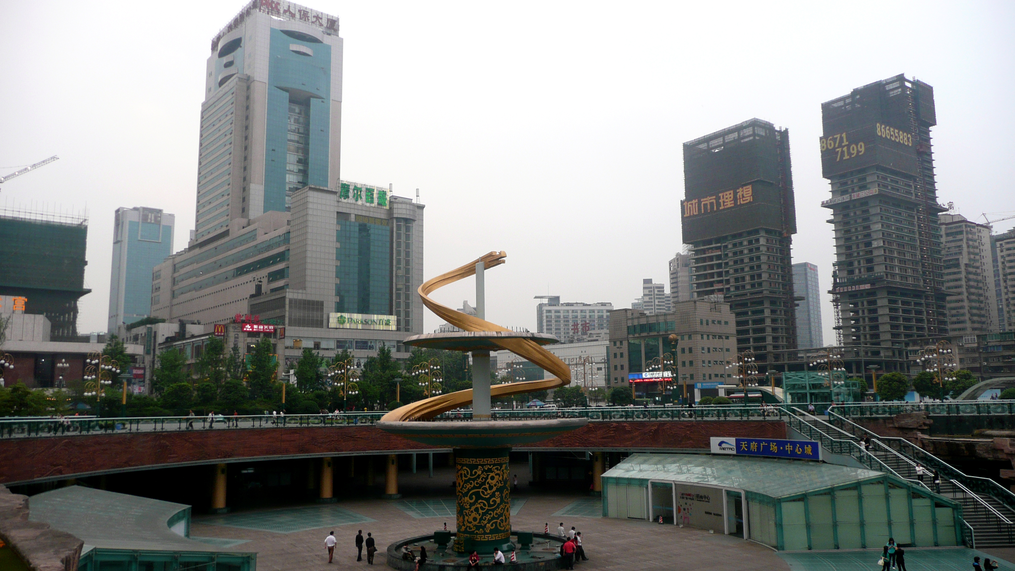 Centre of Chengdu, Sichuan